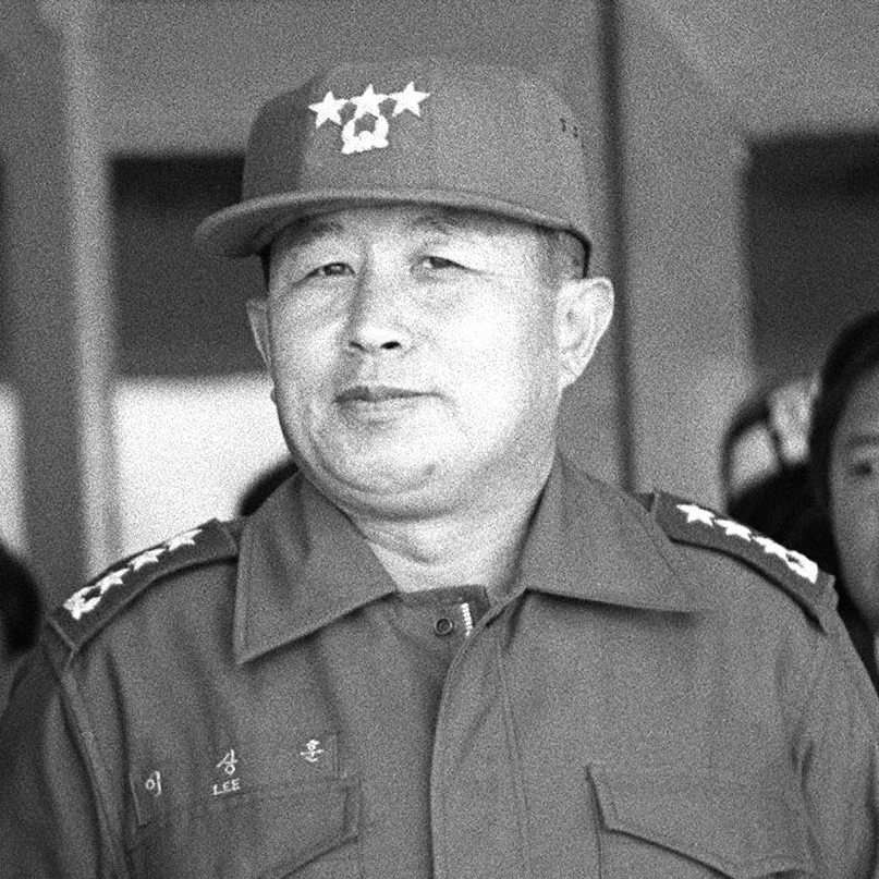 Lieutenant General (LGEN) Lee Sang Hoon (이상훈), Commander, III Republic of Korea Corps, outside the Chun Chon Sports Arena as (United States) US soldiers march past during TEAM SPIRIT '82.